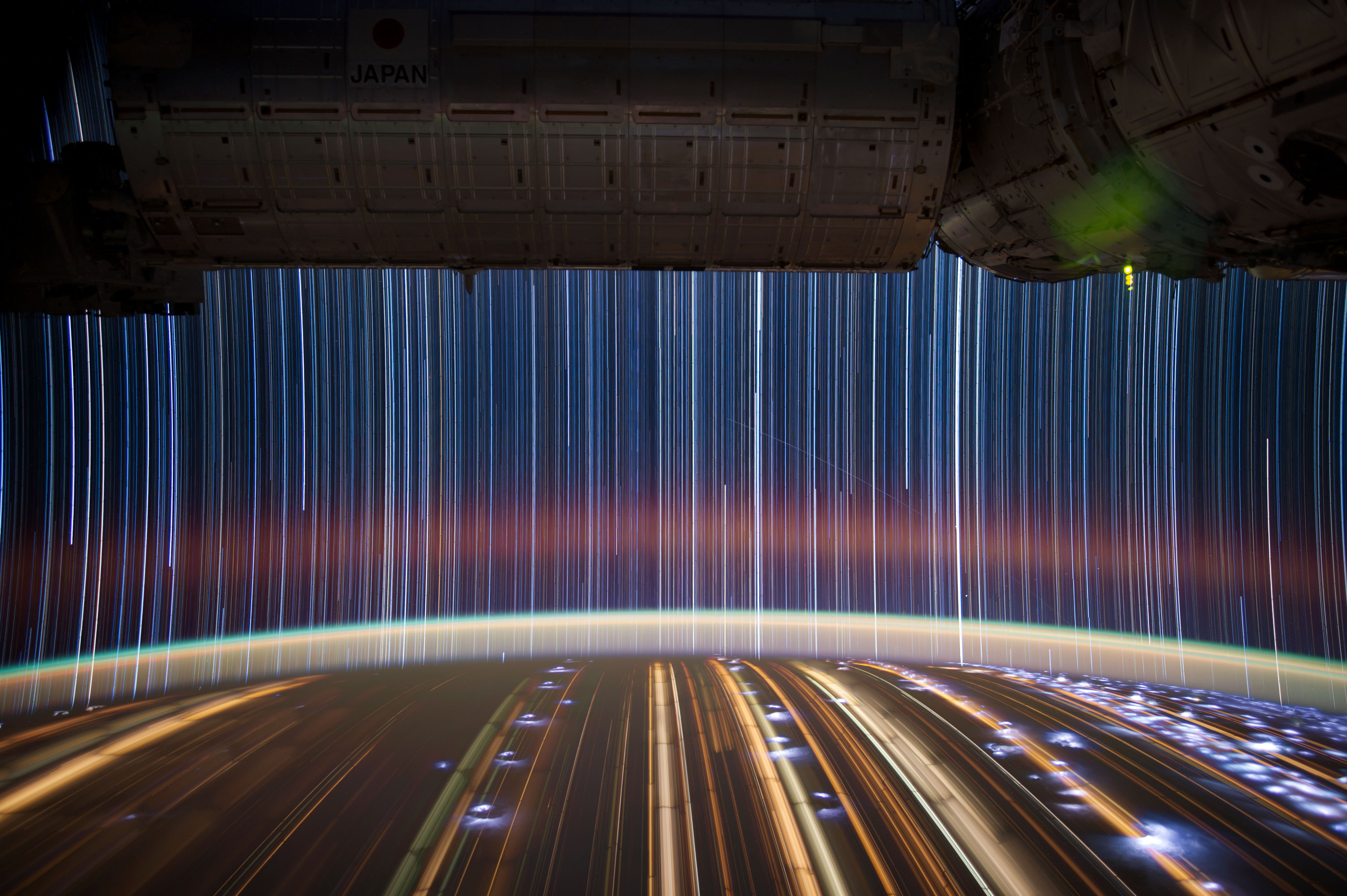 Star trail composite image created by International Space Station Expedition 30 crew member Don Pettit using images ISS030E171842 through ISS030E171889. Expedition 30 and Expedition 31 Flight Engineer Don Pettit provided information about photographic techniques used to achieve the images: "My star trail images are made by taking a time exposure of about 10 to 15 minutes. However, with modern digital cameras, 30 seconds is about the longest exposure possible, due to electronic detector noise effectively snowing out the image. To achieve the longer exposures I do what many amateur astronomers do. I take multiple 30-second exposures, then 'stack' them using imaging software, thus producing the longer exposure."